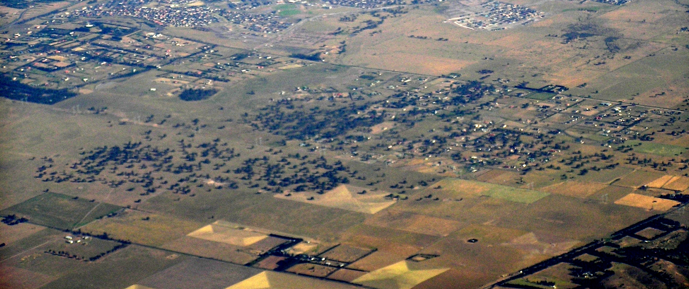 Aerial photo of Mickleham Victoria from north west. Hume Highway cuts top left, Mickleham Road cuts across the bottom. Mount Ridley Road slices off the top right corner, and Mickleham lies to the left of this and on this side of the Hume Highway.